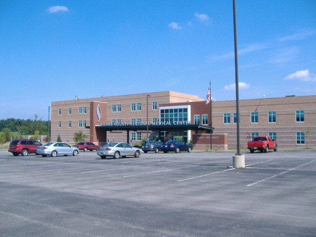 Adams County Hospital in Seaman, Ohio.